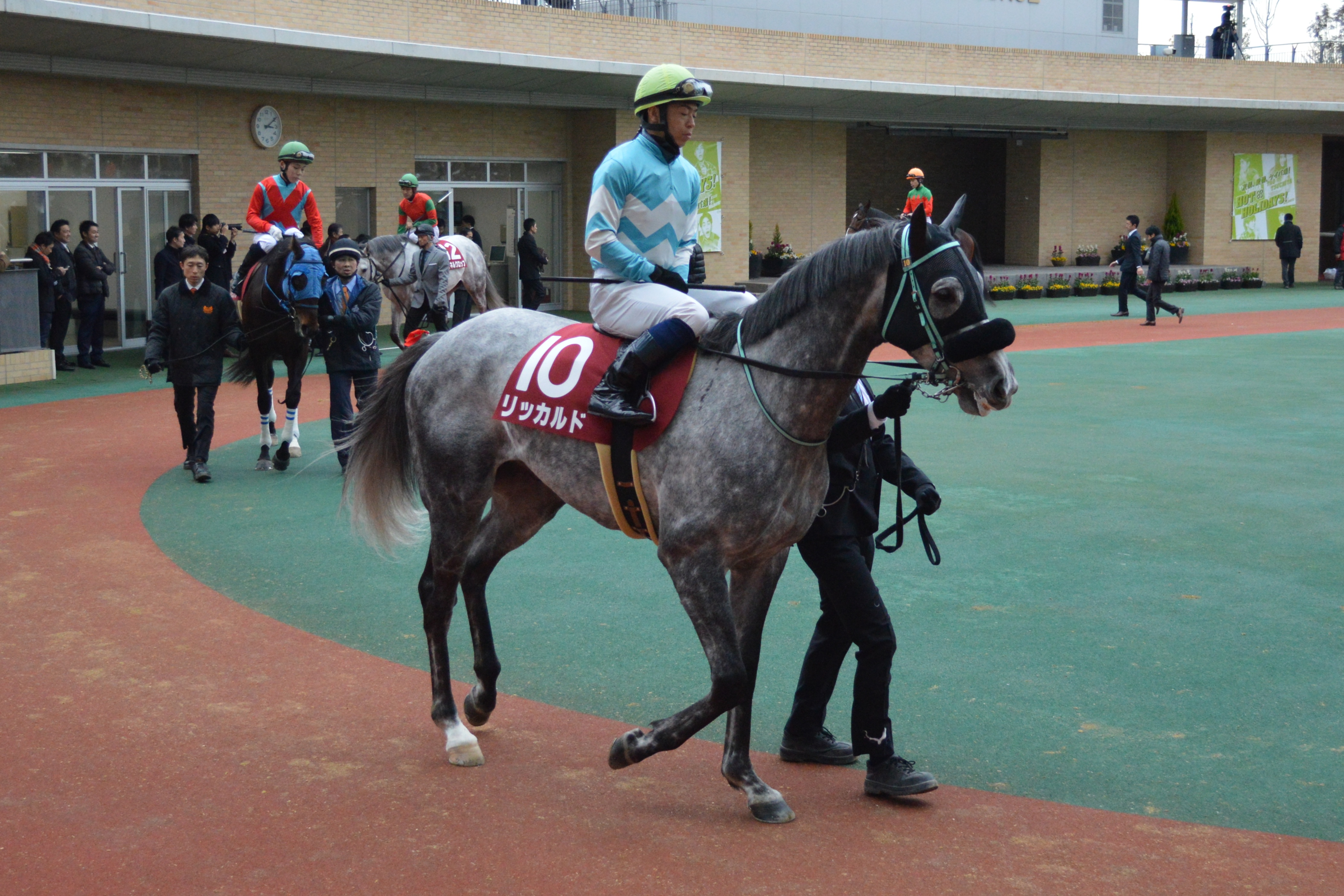 Japanese race horse Riccardo at Chukyo racecourse. Chukyo (JPN) 22 Jan 2017 Tokai Stakes (Grade 2) (4yo+) (Dirt) 1m1f Standard RankHorse NameOddsAgeWgtTrainerJockey1stGlanzend (JPN)8/5FC48-9Yukihiro KatoNorihiro Yokoyama2ndMolto Bene (JPN)95/1H58-11Masahiro MatsunagaShinichiro Akiyama3rdMeisho Utage (JPN)121/1H68-11Akio AdachiHideaki Miyuki4th - 15th/omission16thRiccardo (JPN)46/1G68-11Yoichi KuroiwaHiroshi Kitamura